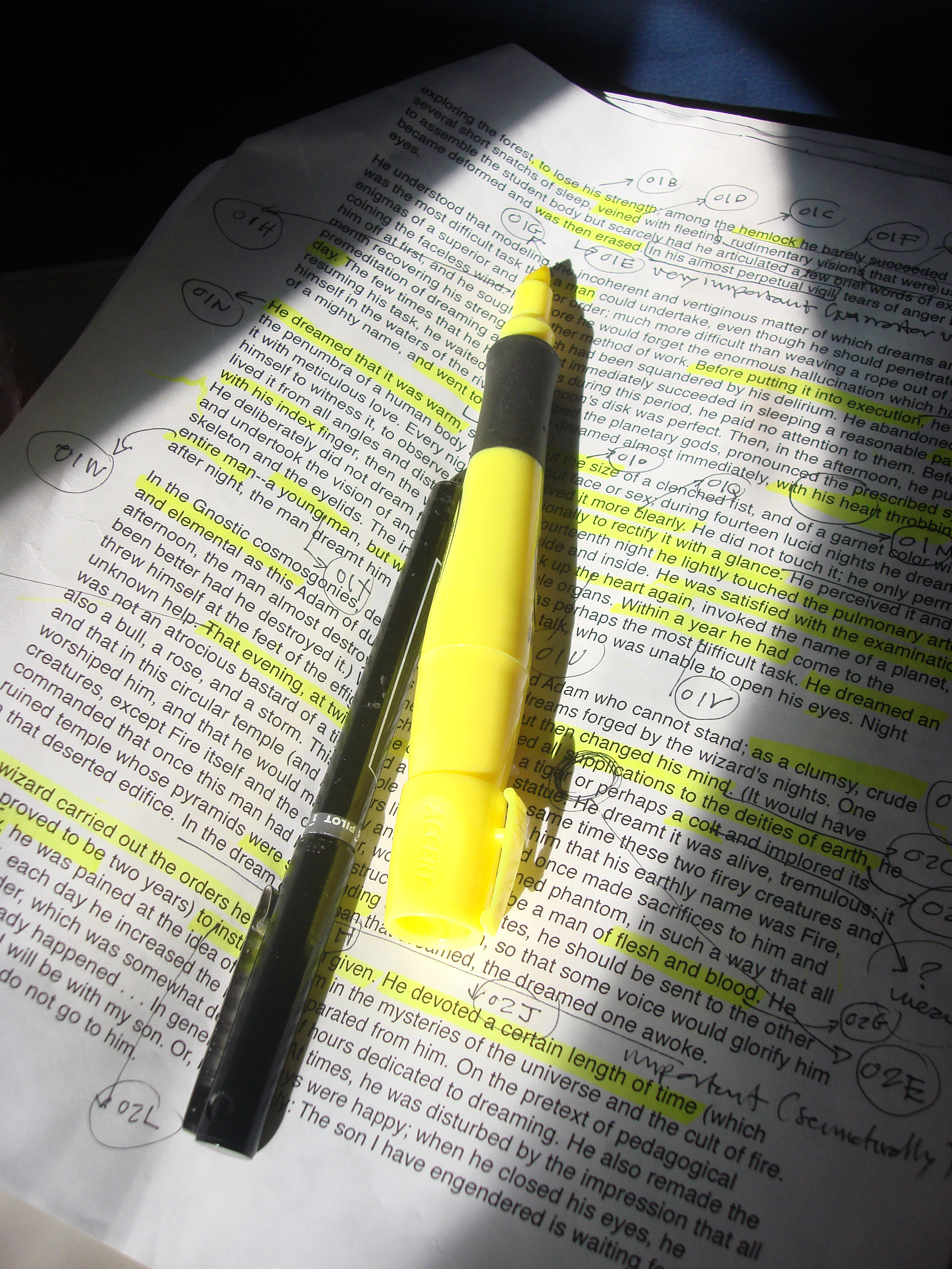 Yellow highlighting on a page of photocopied text. The yellow marker pen and another pen lays across the page.